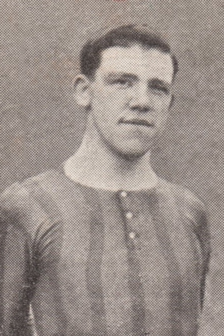 James Bellingham at Brentford FC 1903/04.